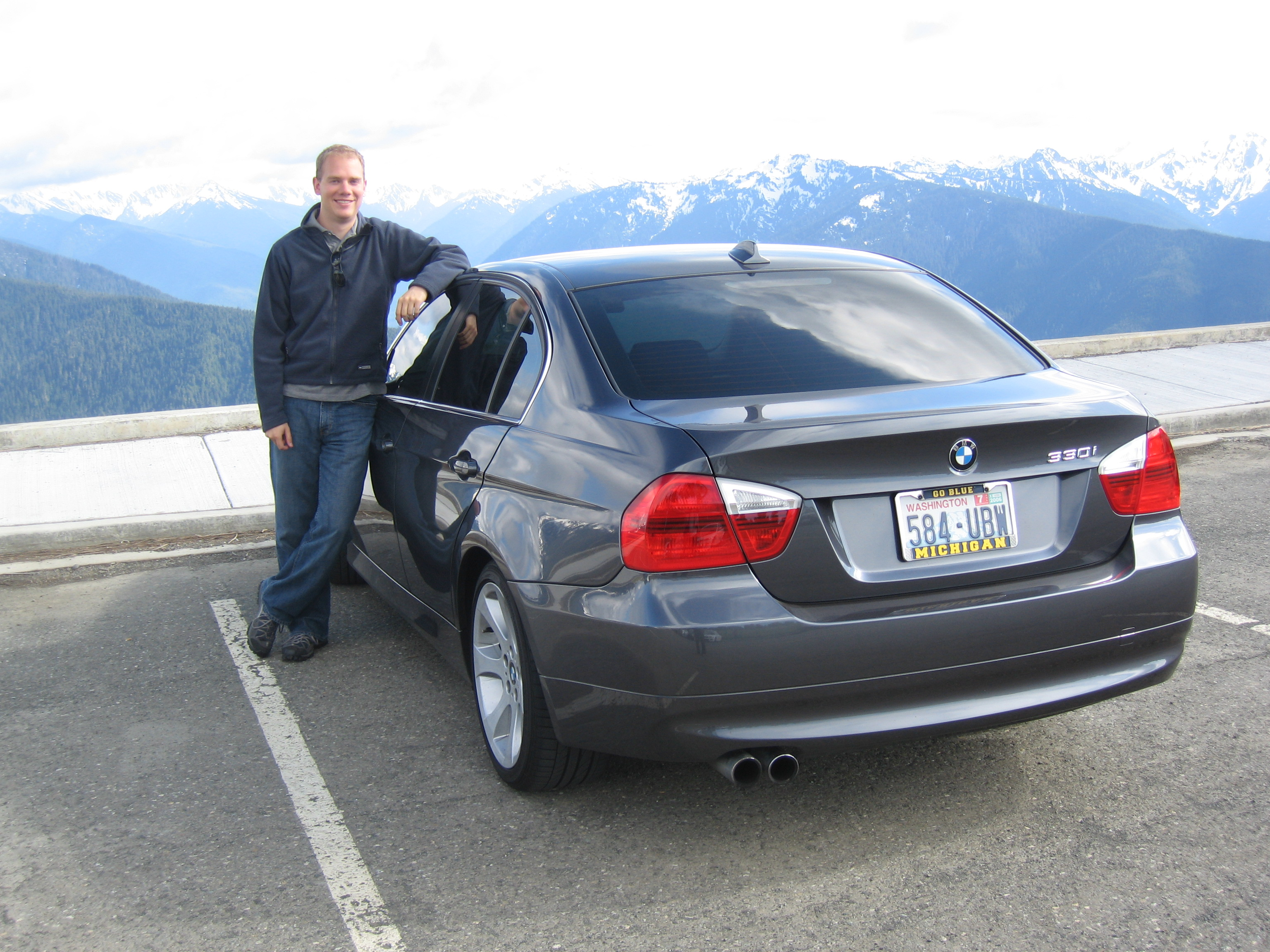 Here I am, chilling with a surprisingly clean car given how many miles we drove this day.